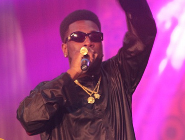 Burna Boy performing in Ghana